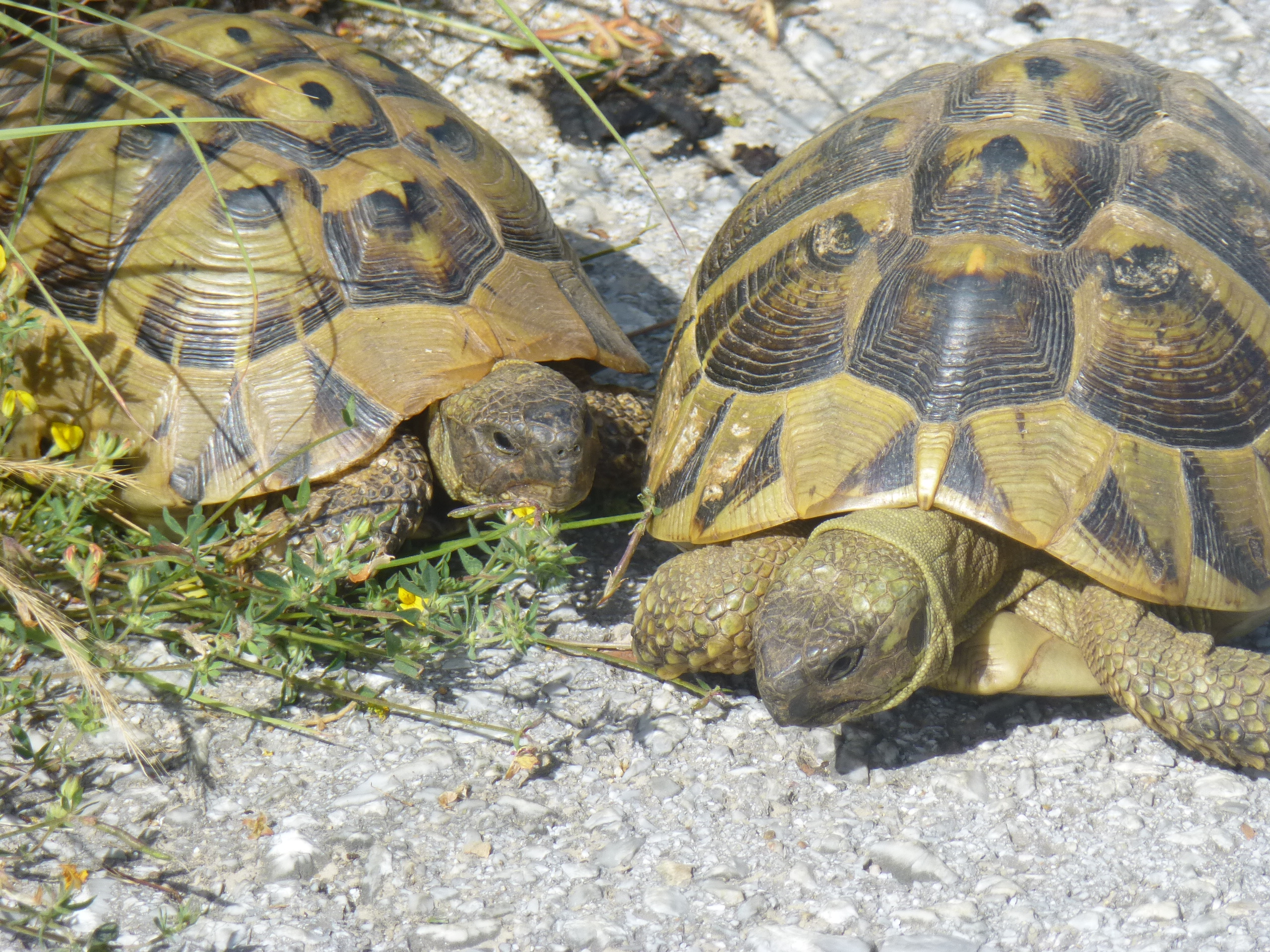 Two tortoises walking across the road between Crnovec and the Streževo Dam (off Macedonian Hwy P1305, between Demir Hisar and Bitola)